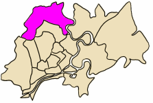 position of district 12 in an outline of the core area of HCMC (Ho Chi Minh City, Vietnam) - ISO code VN-F-HC. Keywords: map, outline, city, Ho Chi Minh City, HCMC, HCM, district 12, quan 12.